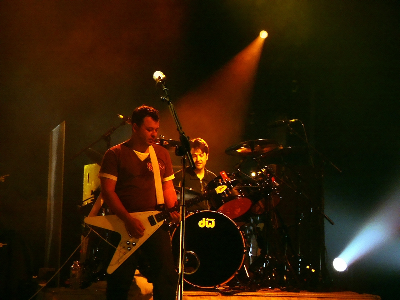 Manic Street Preachers live in London